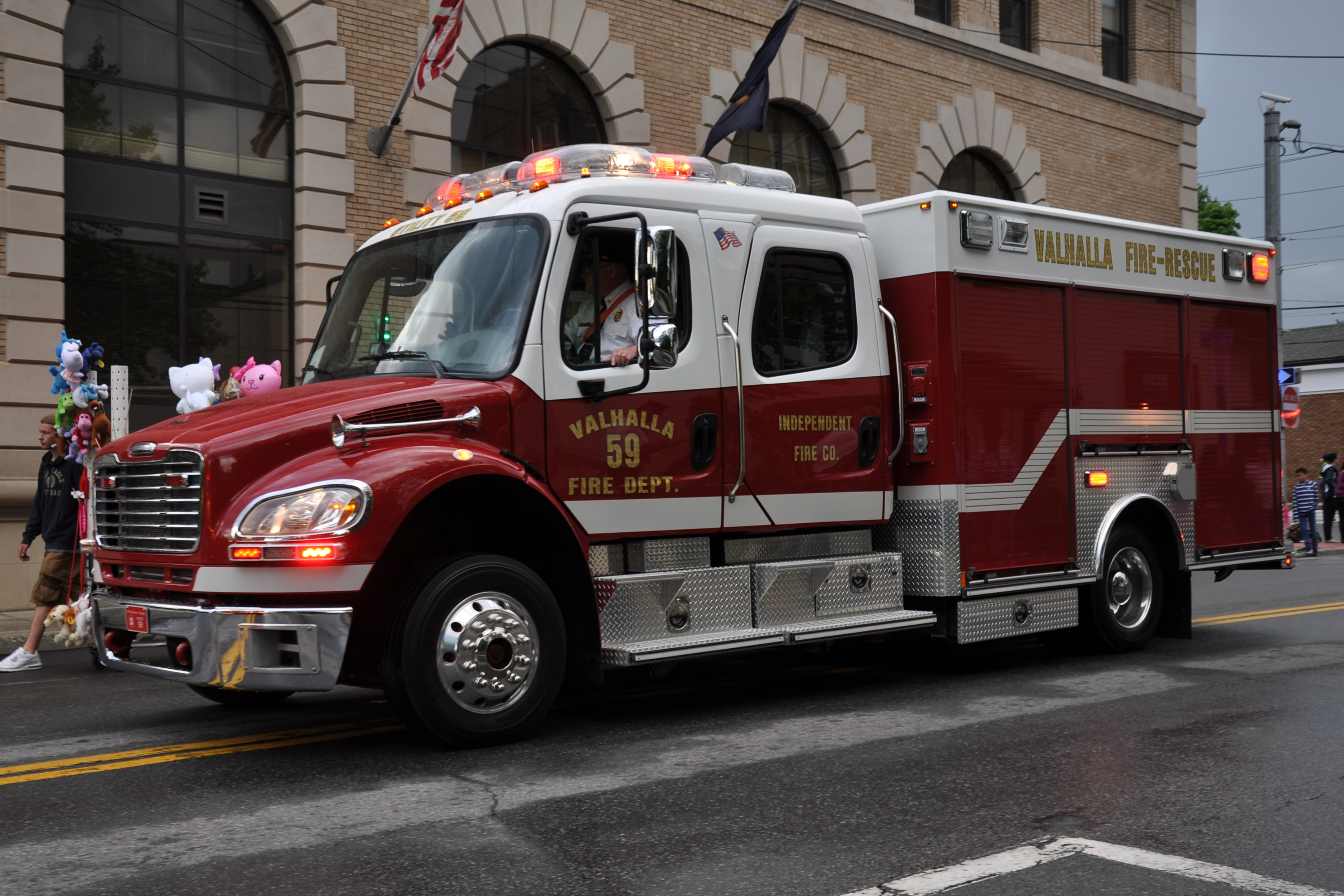 Valhalla NY fire vehicle. I took this at the Pleasantville Firefighters' Parade on May 30, 2014.